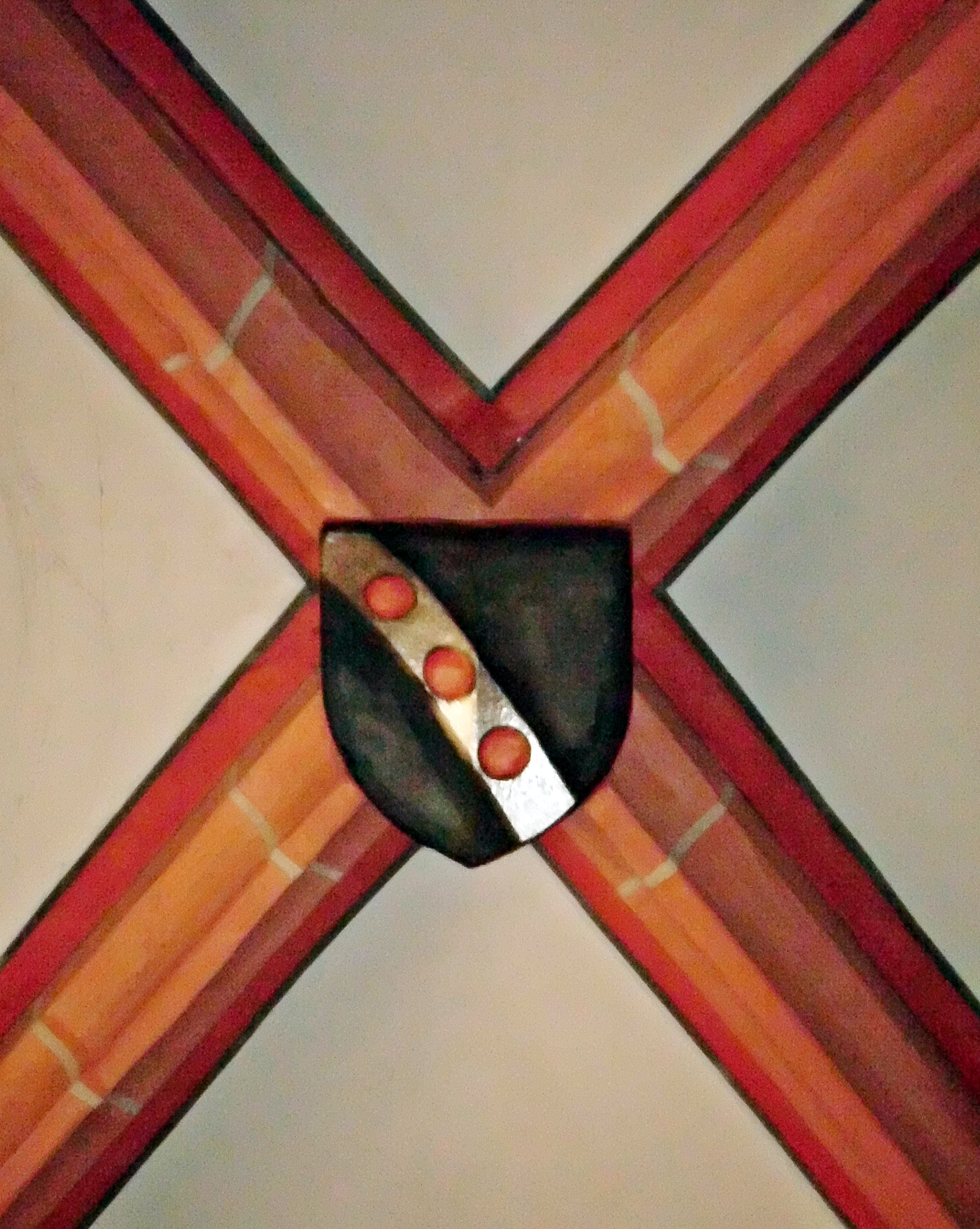 Deidesheim, St. Ulrich, Wappenschlussstein der Schliederer von Lachen